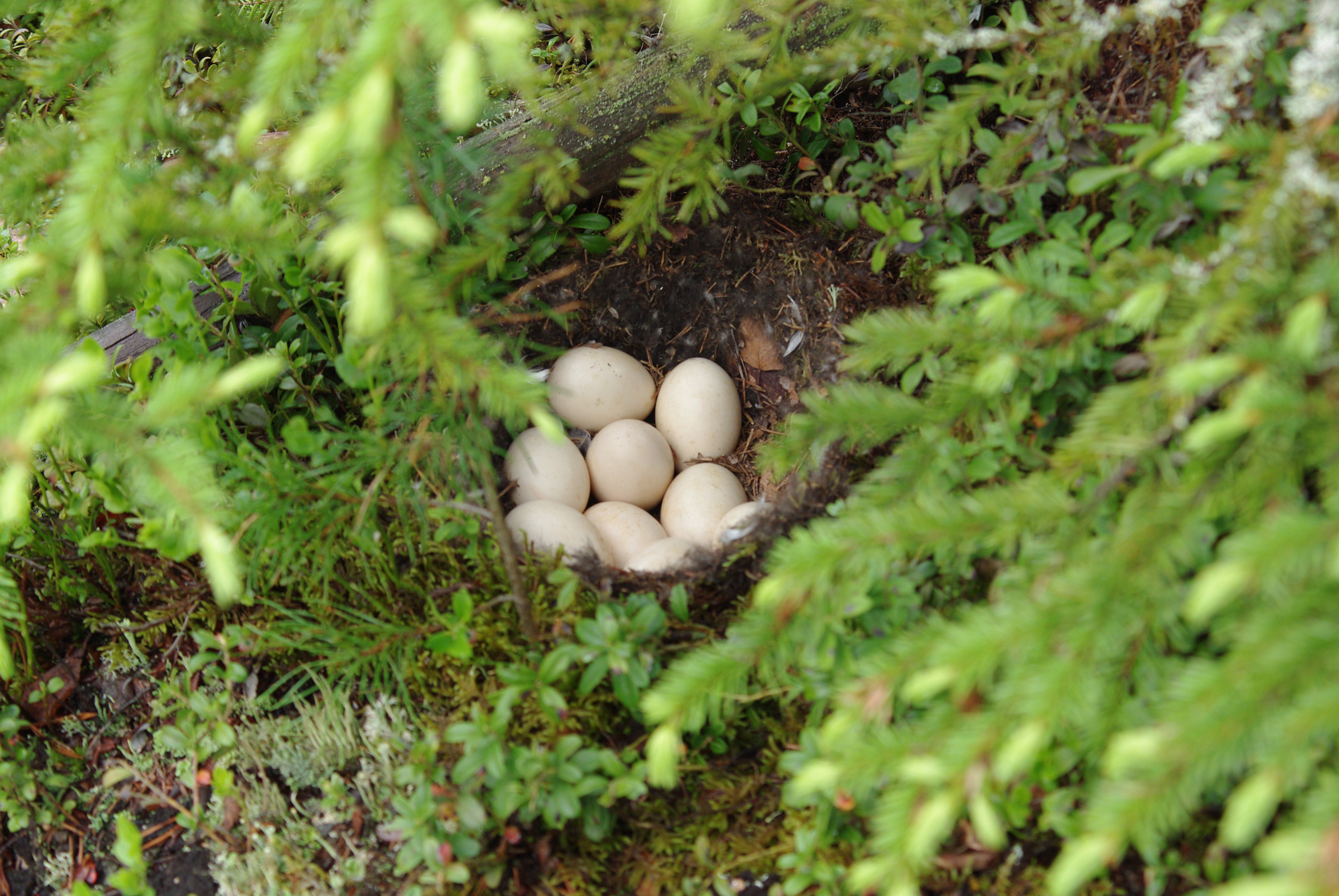 Mallard eggs in a nest in a forest few hundred meters from the nearest lake.